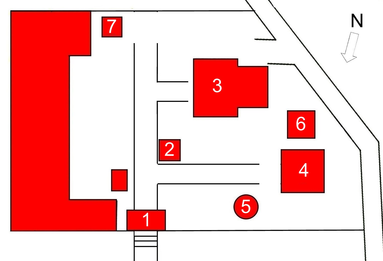 Layout of Iwamoto-ji temple, Kochi Prefecture, Japan